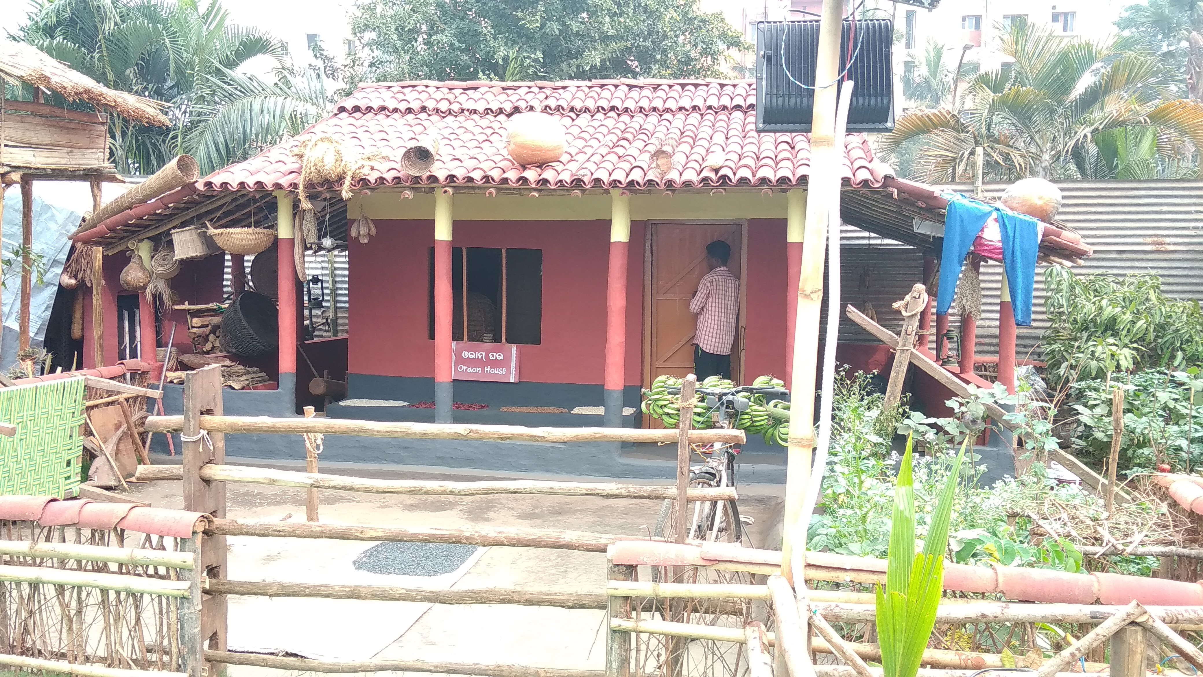 This photo has been taken in the country: India